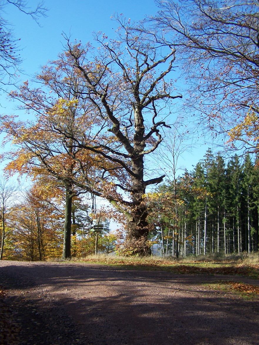 The oak called Kisseleiche.